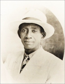 Profile photograph of Hector Hyppolite